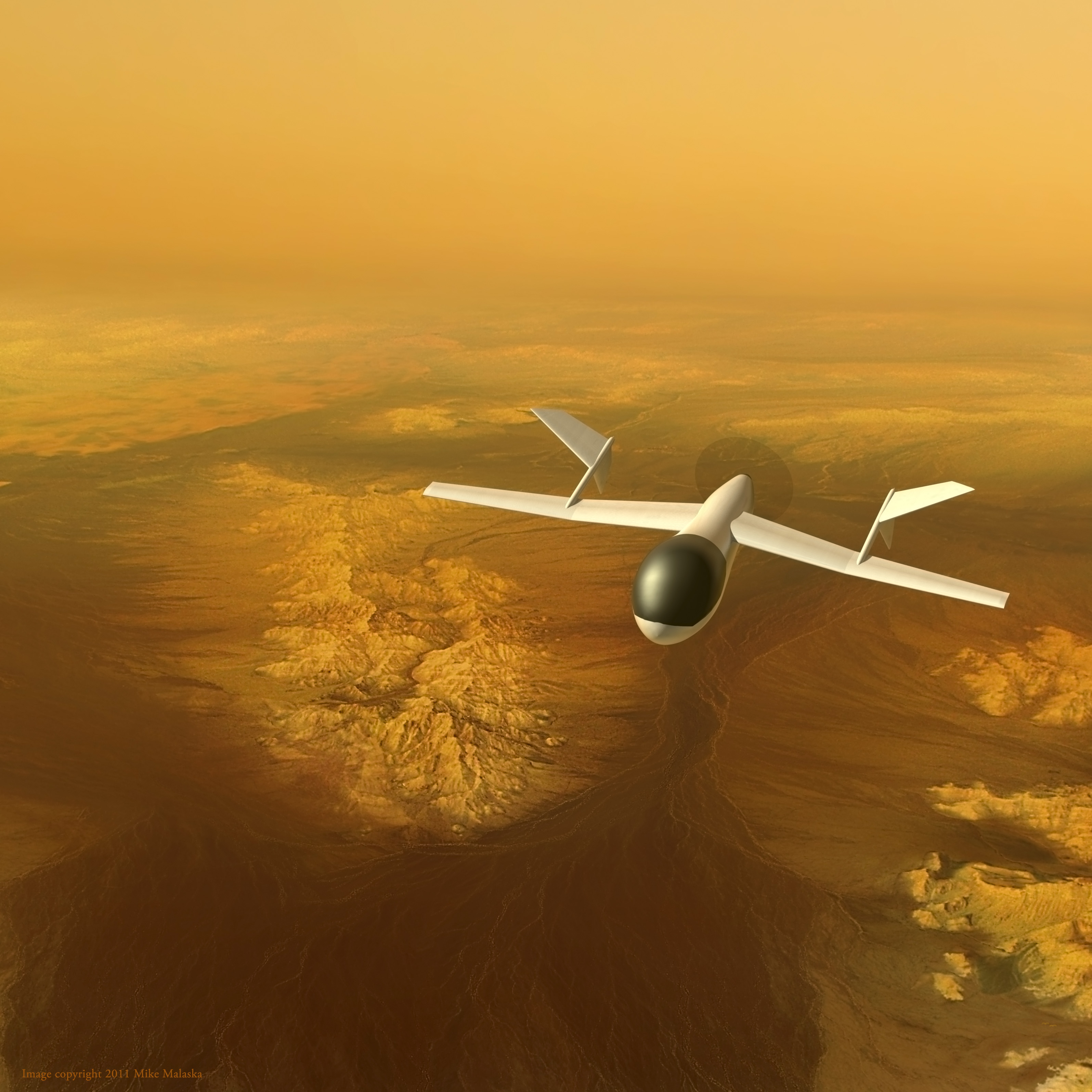 AVIATR aircraft over Titan's bright terrain